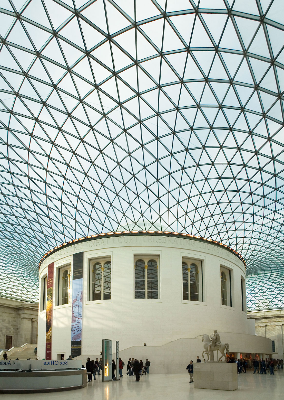 The Great Court of the British Museum, with the new tessellated roof designed by Foster and Partners arching around the original, circular, Reading Room of the British Library. The sculpture on the pedestal on the right hand foreground is A youth on horseback from 1st century AD Rome.